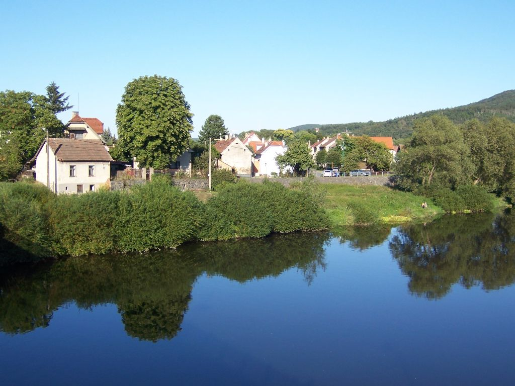 Lety, Prague-West District, Central Bohemian Region, the Czech Republic. A view of southern part of the village from bridge over the Berounka River. - OpenStreetMap(Info)